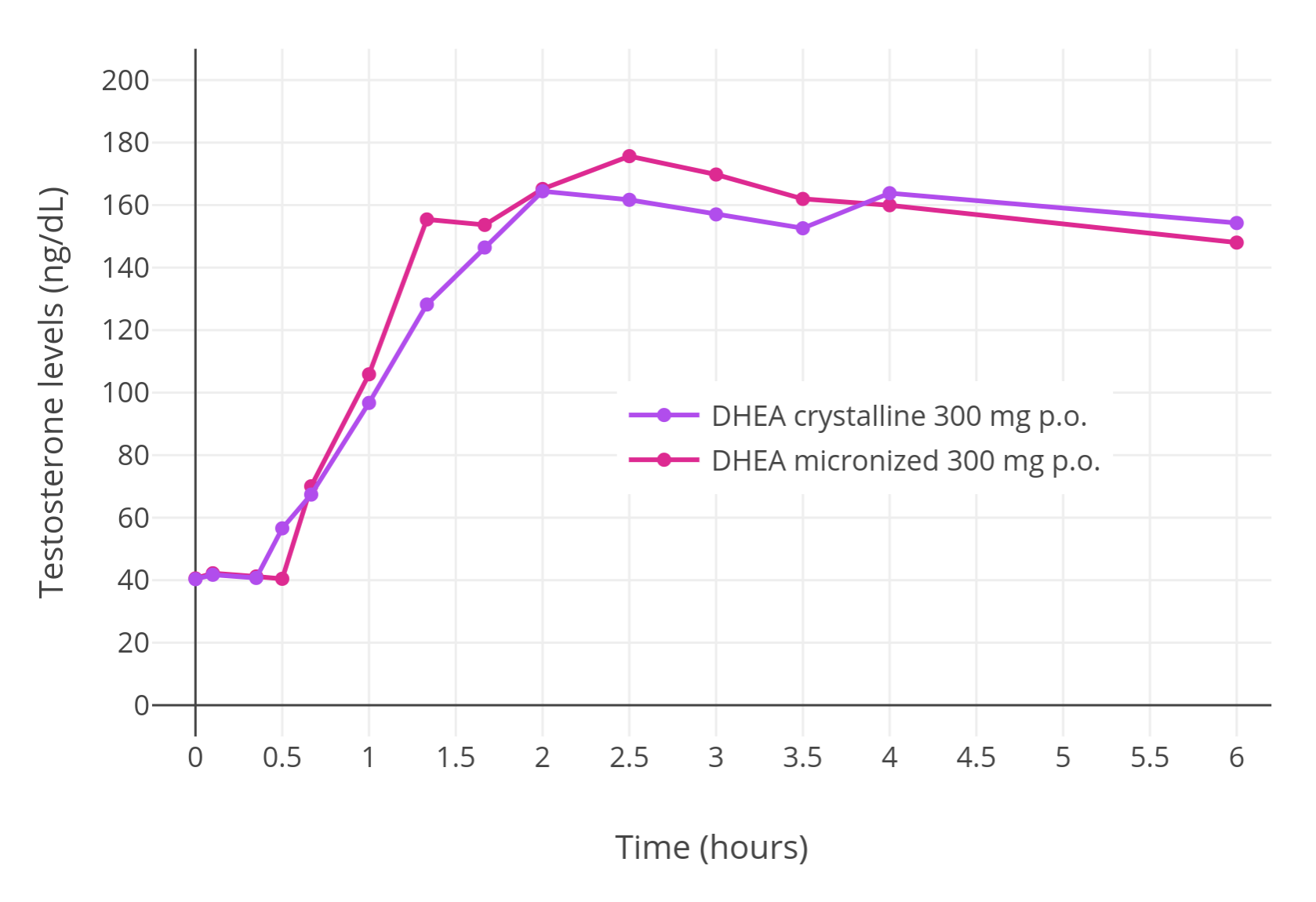 Testosterone levels following a single oral dose of 300 mg crystalline (non-micronized) or micronized DHEA (prasterone) in premenopausal women. Source of the values: (February 1996). "Delivery of dehydroepiandrosterone to premenopausal women: effects of micronization and nonoral administration". Am. J. Obstet. Gynecol. 174 (2): 649–53. PMID 8623801.